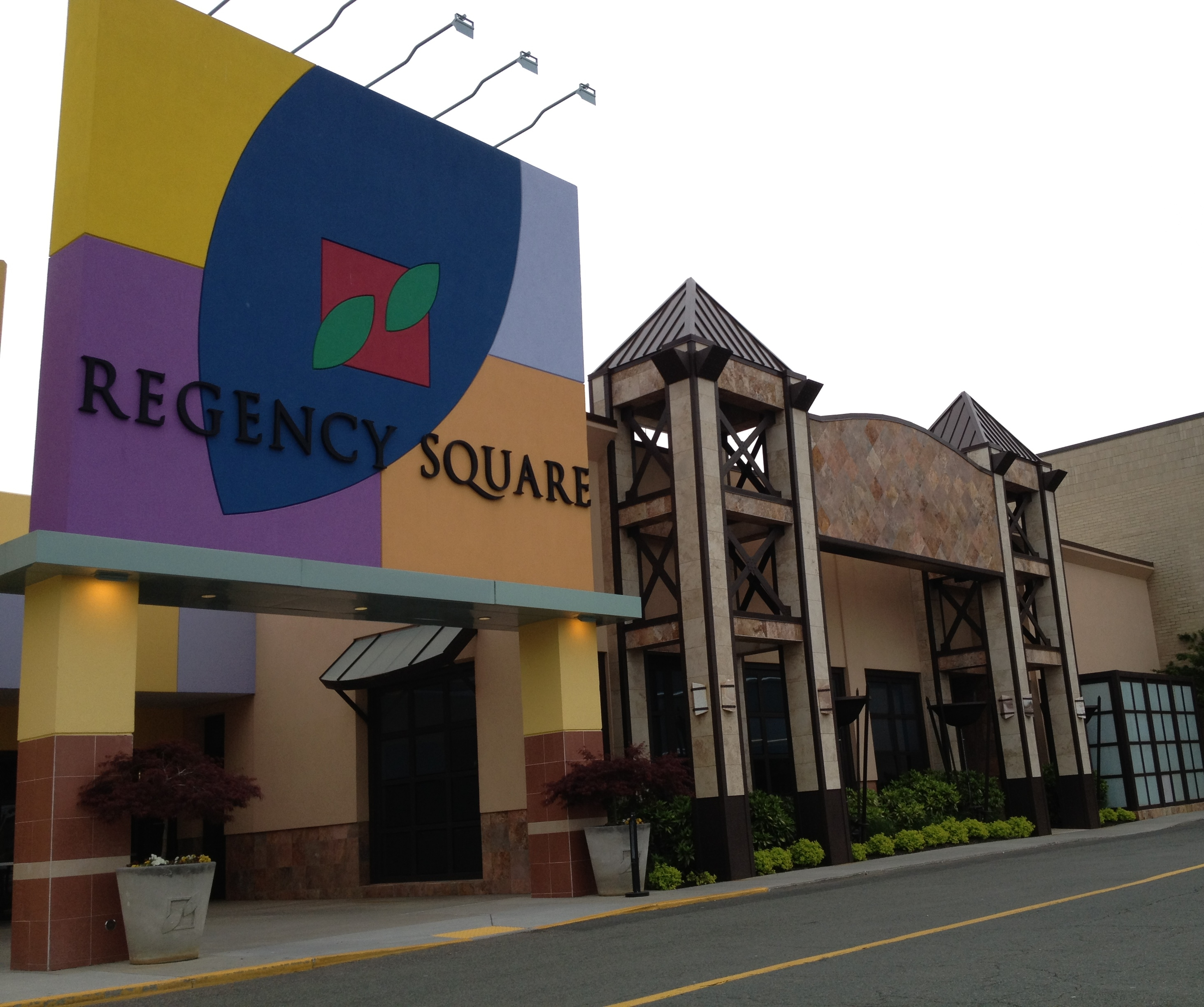 Regency Square Mall